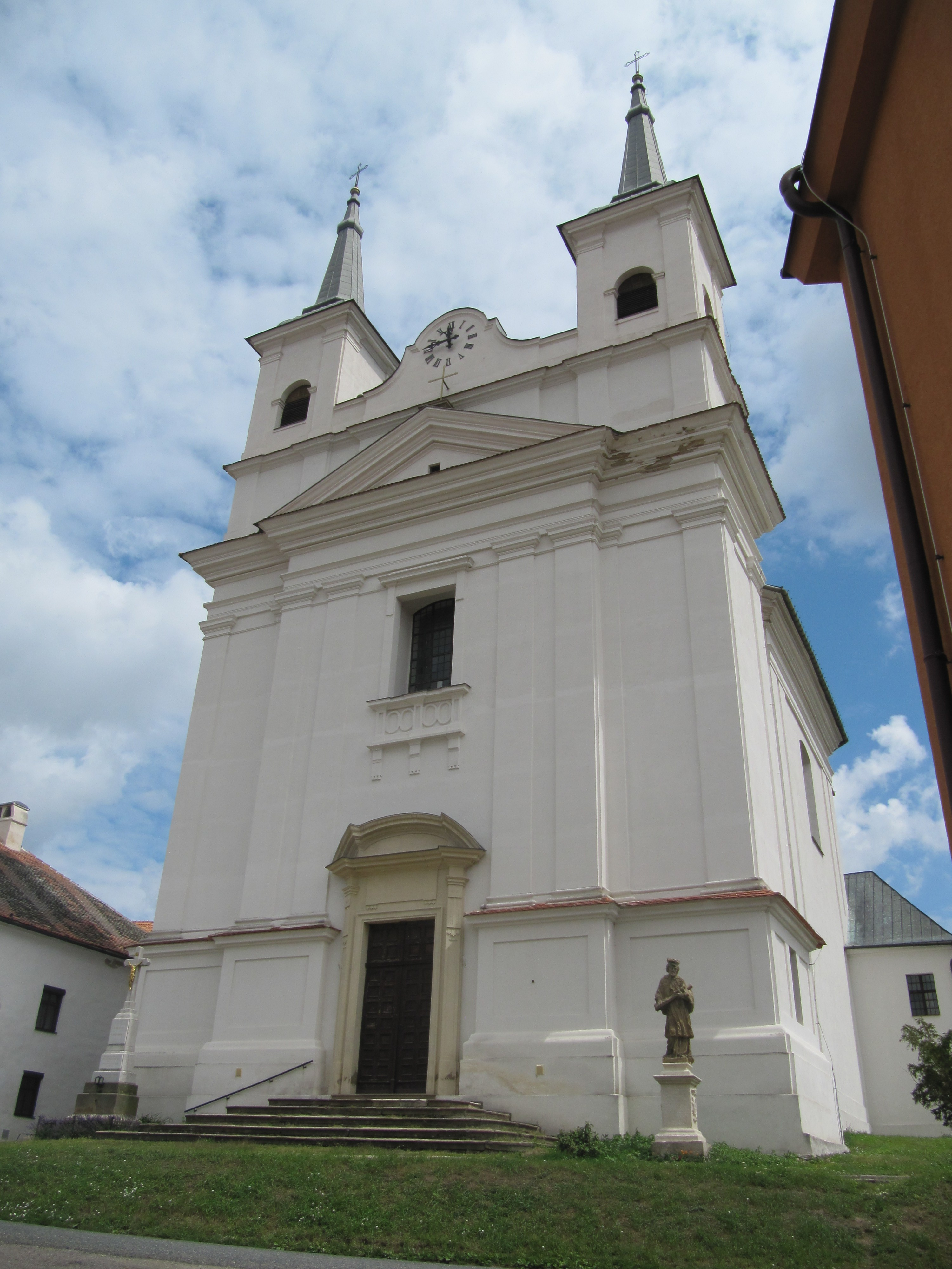 Drnholec in Břeclav District, Czech Republic. Trinity Church.